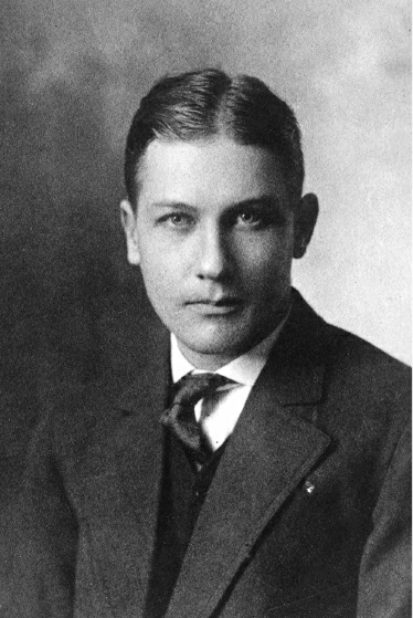 Alexandre Arsène Girault, c. 1904, National Archives image #7-H-15-H79